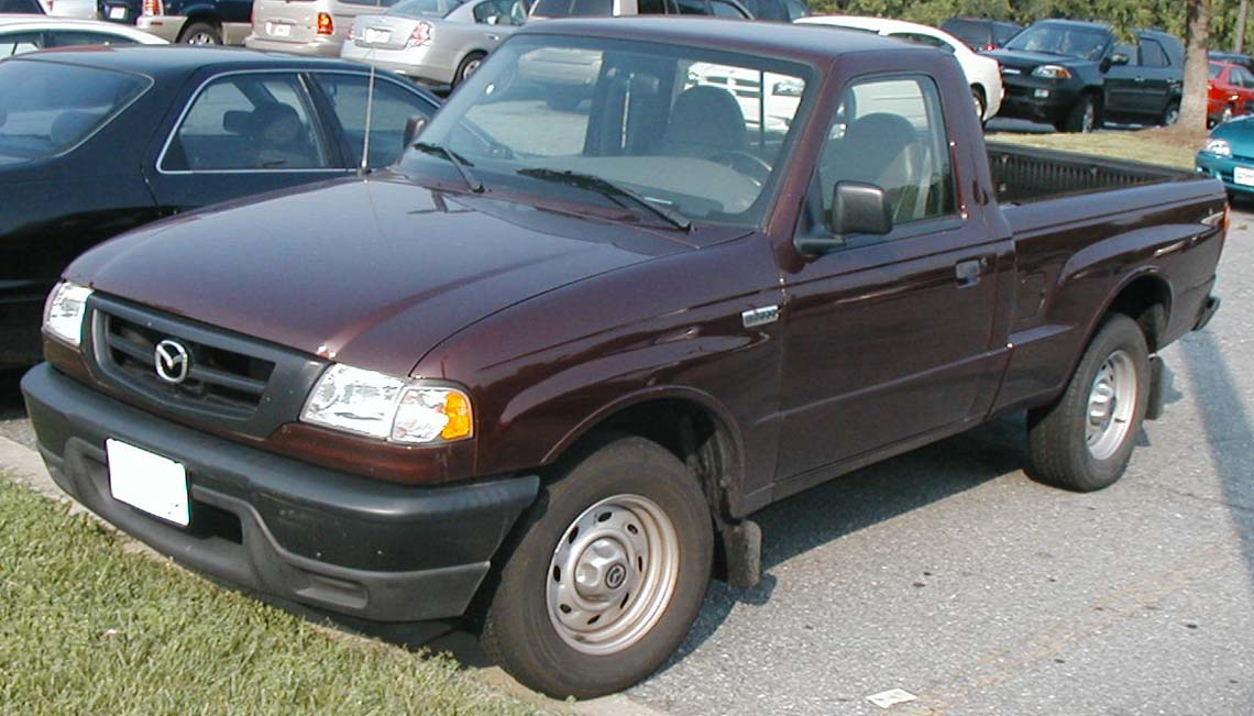 1998-2006 Mazda B2300 photographed in USA.